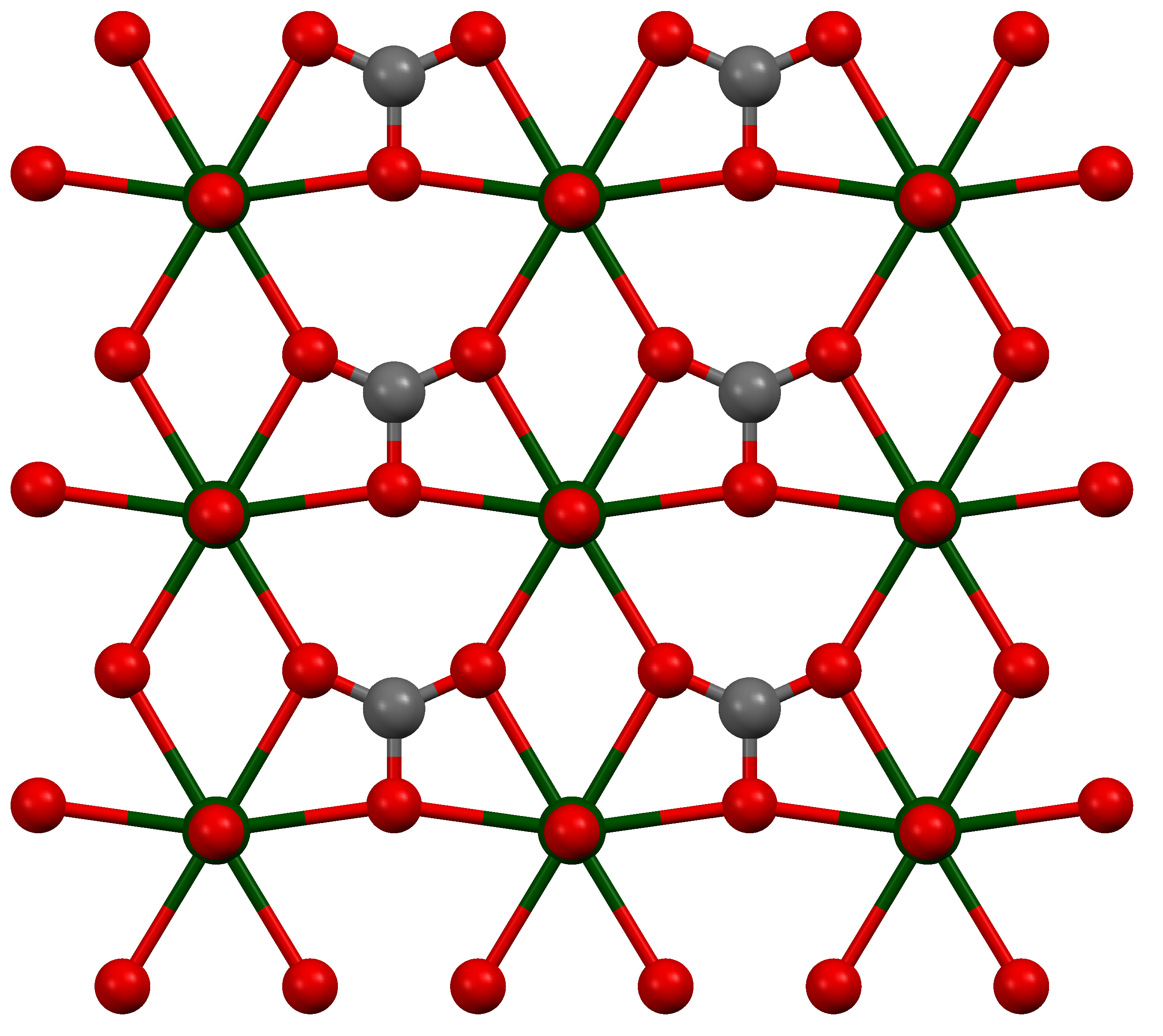 Crystal packing of the mineral rutherfordine towards the crystallographic b axis